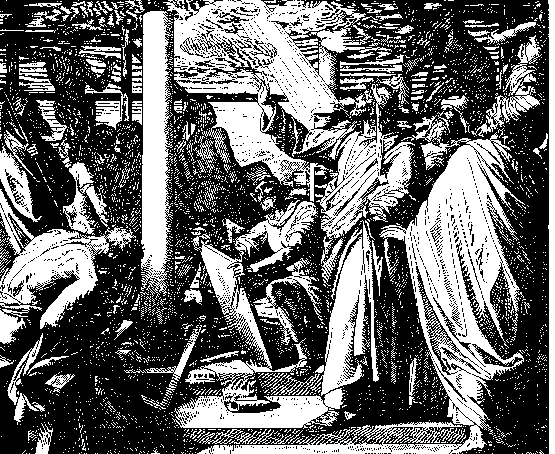 Woodcut for "Die Bibel in Bildern", 1860.